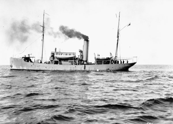 The CGS Thiepval on patrol in Hecate Strait, British Columbia, while serving with the Fisheries Protective Service. (Original LAC caption: "C.G.S. "Thiepval" Fisheries Protective Service Boat on patrol duty, Hecate Strait, B.C.")